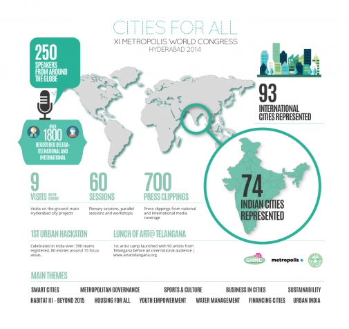 For more